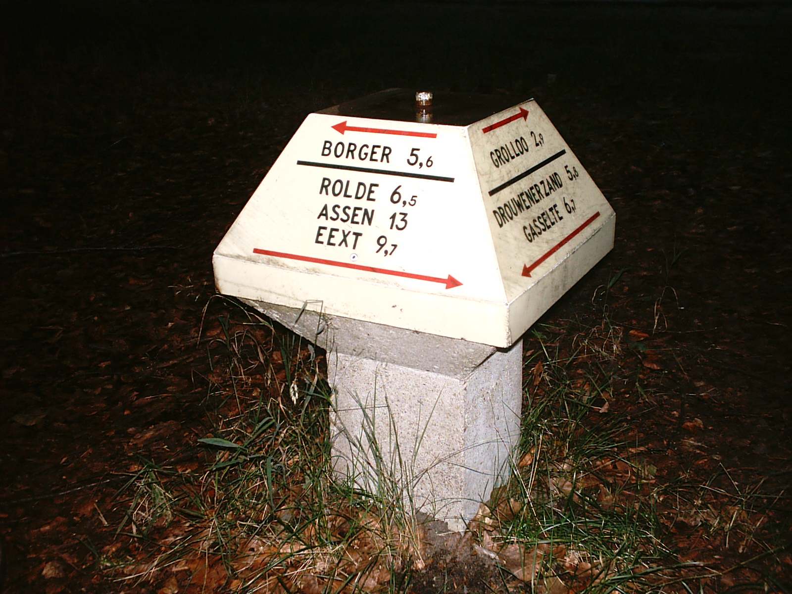 Paddenstoel (the word literally means 'toadstool'). These are used in the Netherlands to show directions for cyclists.